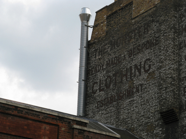 161-165 Borough High Street, Borough, Bankside, Londra, SE1, Inghilterra, Regno Unito - made with: Canon PowerShot A720 IS